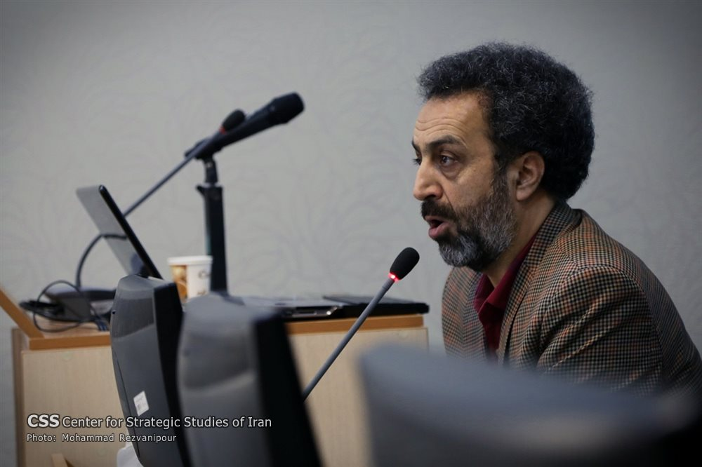 Mohsen Renani, Iranian economist